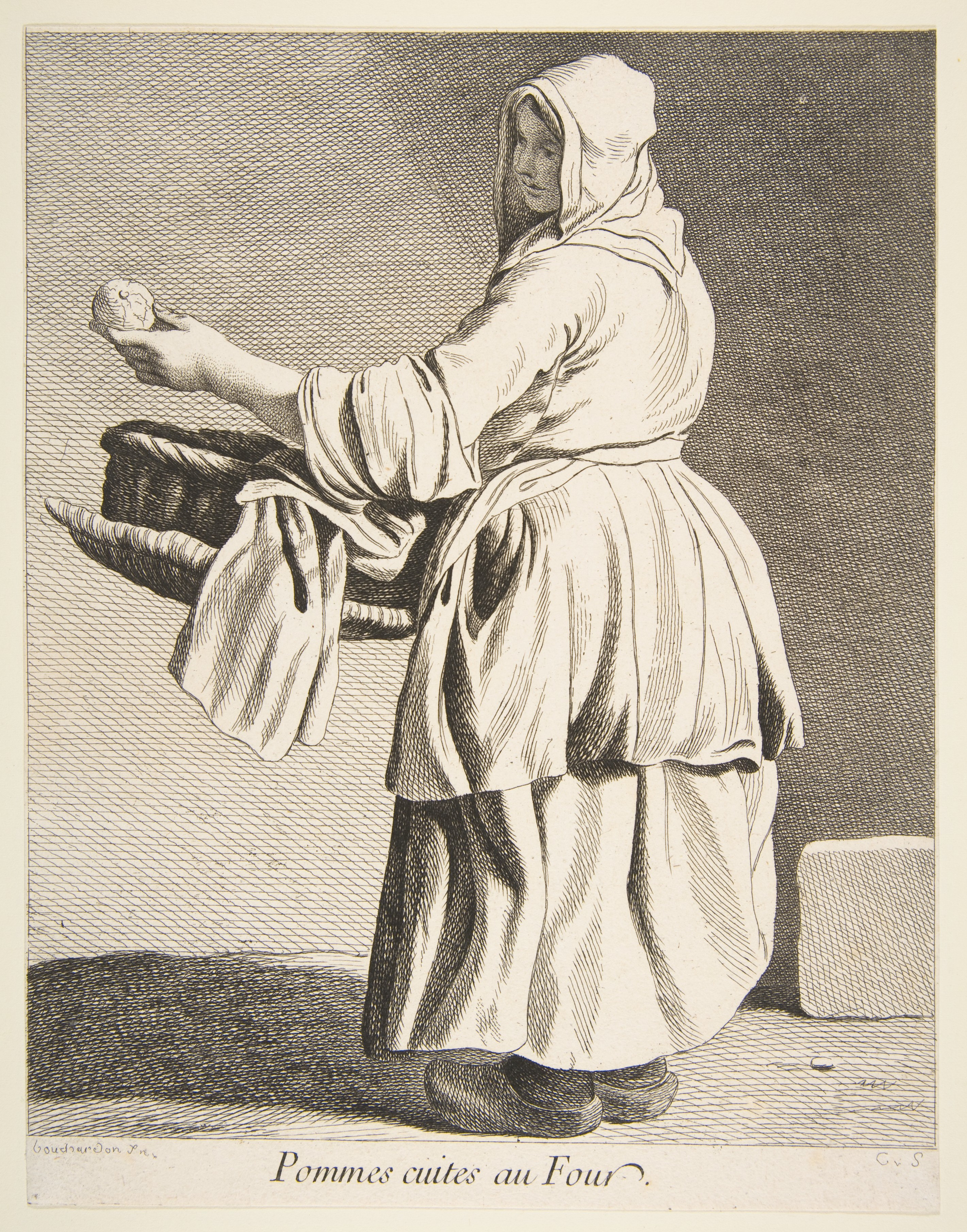 Cooked Apple Seller. Woman selling baked apples; she stands full-length, turned to the left, carrying a large basket in front of her, and offering an apple which she holds in her left hand.